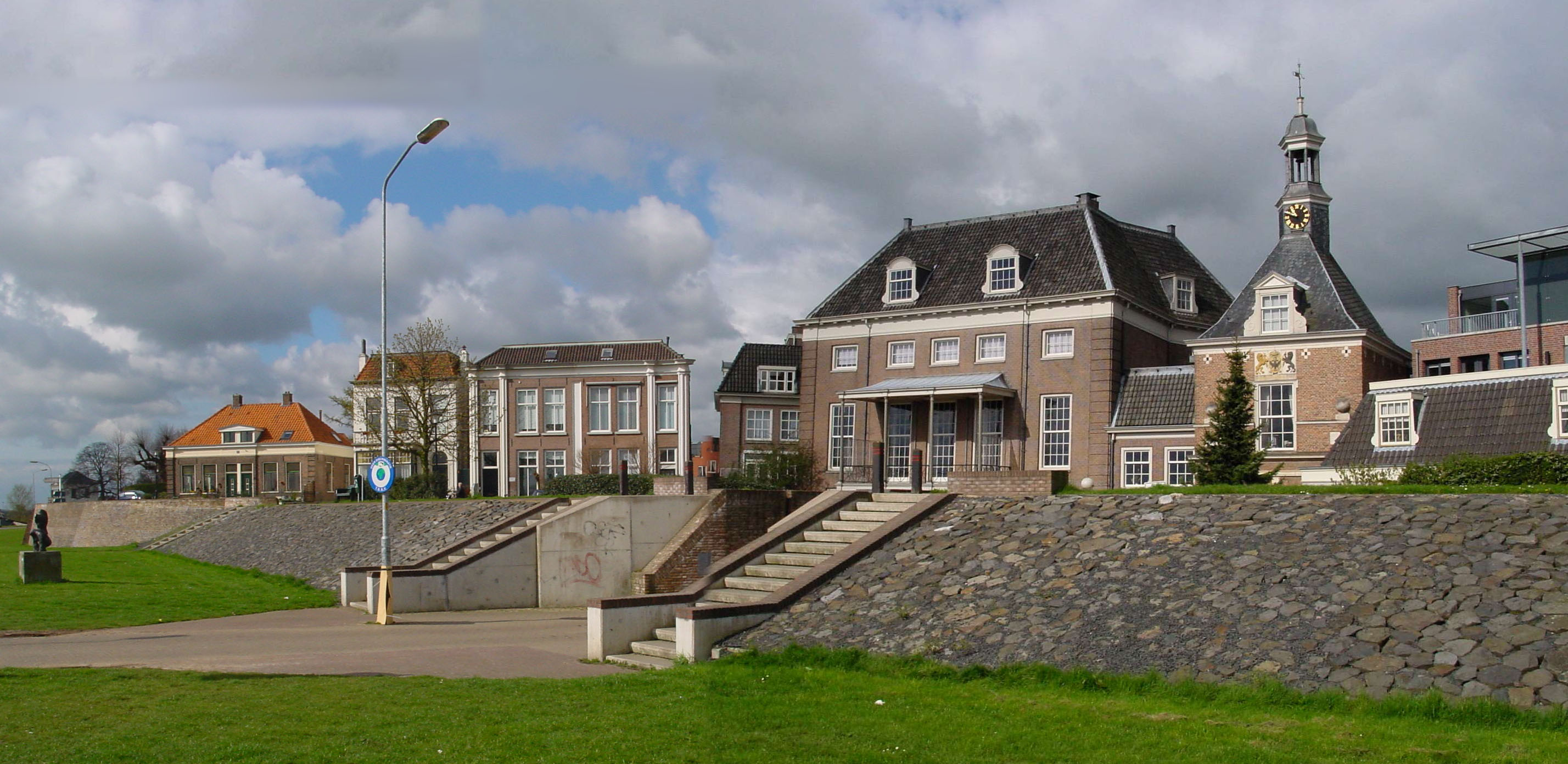 Waterpoort, Tiel, Netherlands. Looking direction West. 2″ N, 5° 26′ 26″ E